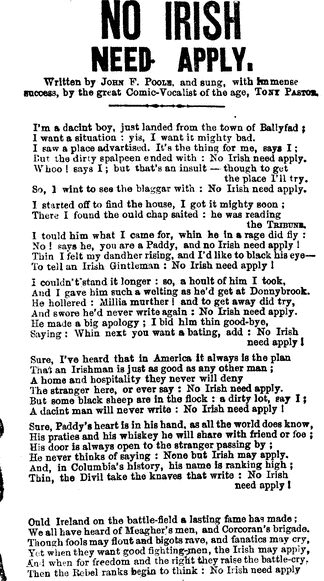 1862 American song